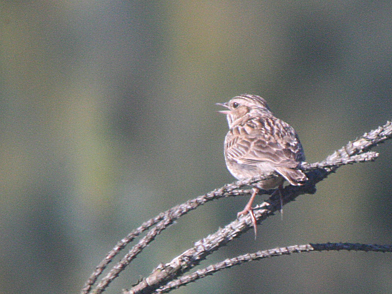 Lullula arborea en , Thursley Common, Surrey, England